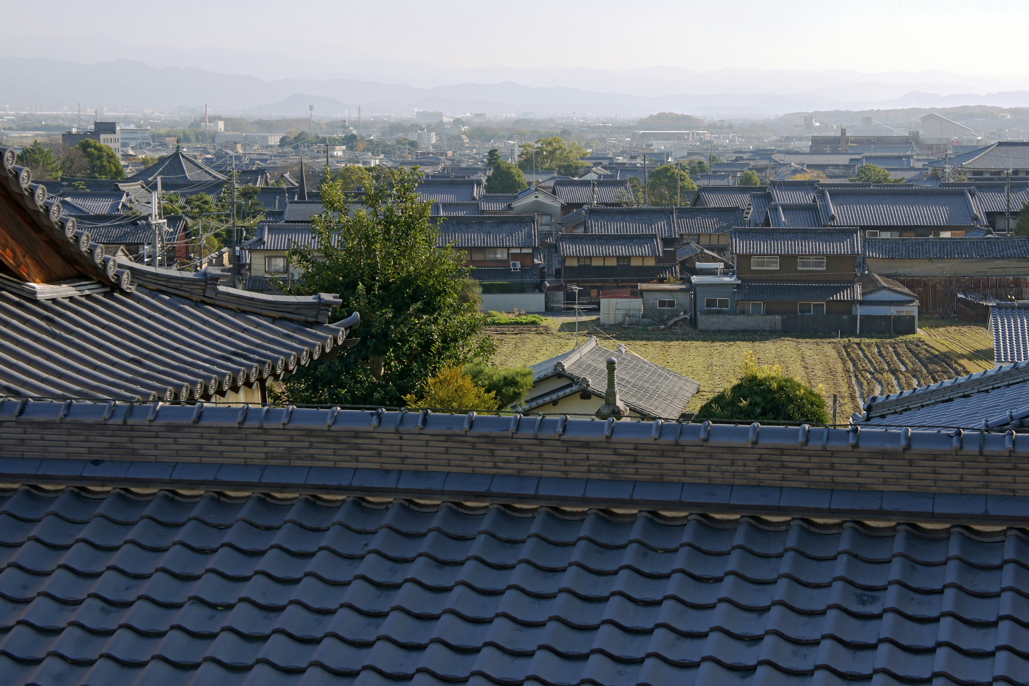 Ikaruga Town view in Nara prefecture, Japan.